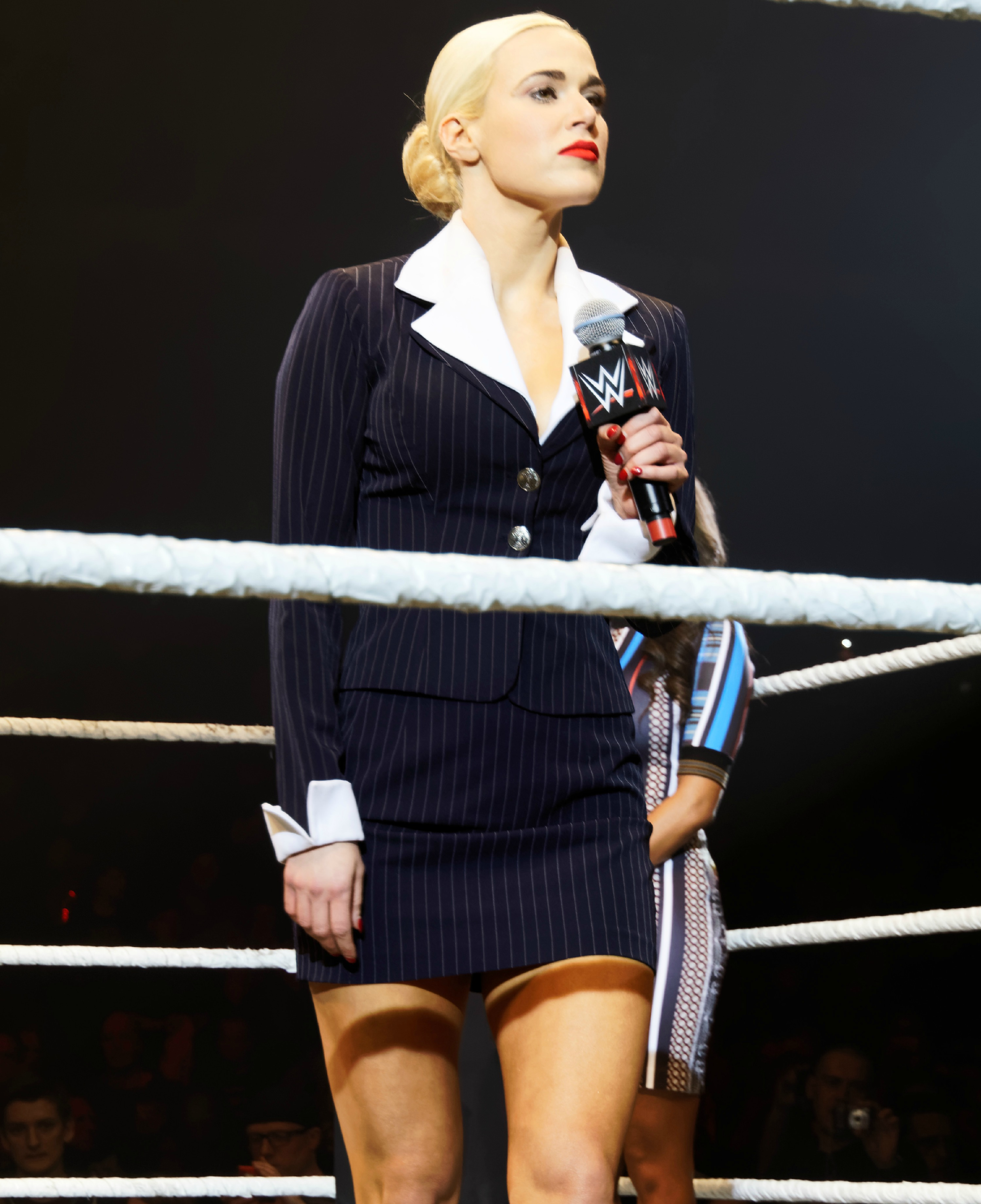 Lana in April 2015